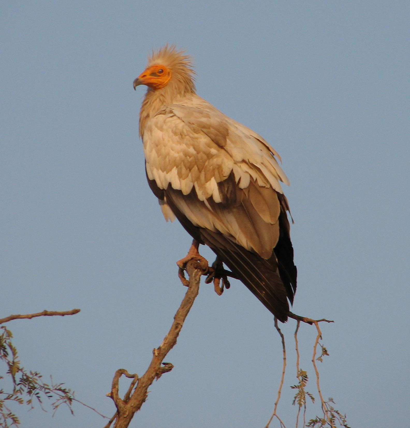 Egyptian Vulture Neophron percnopterus, Jodhpur, India